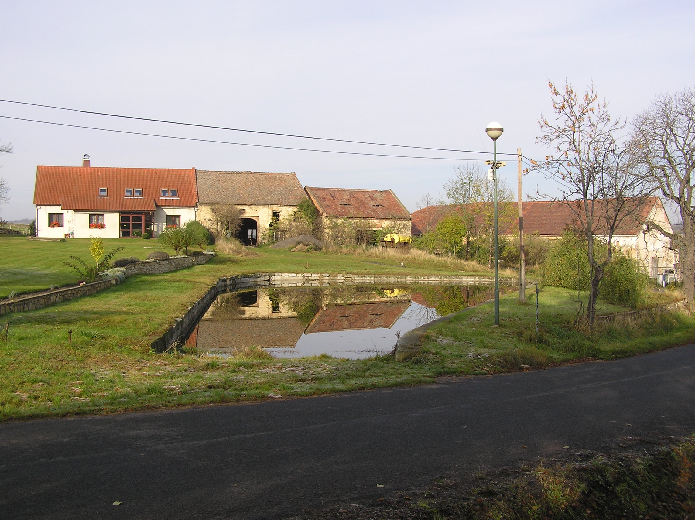 Village square in Charvatce